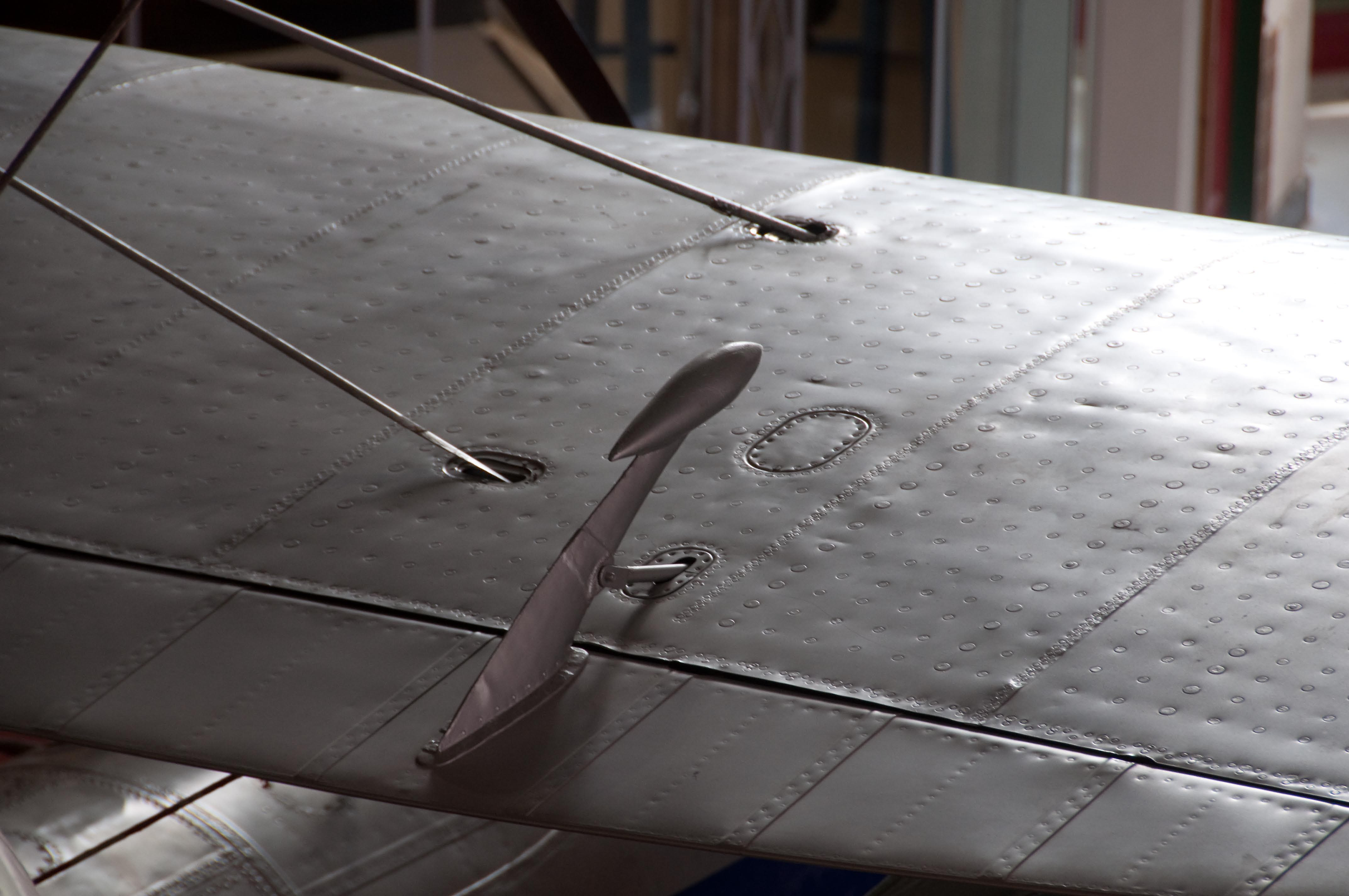 Aileron balance weight and wing details